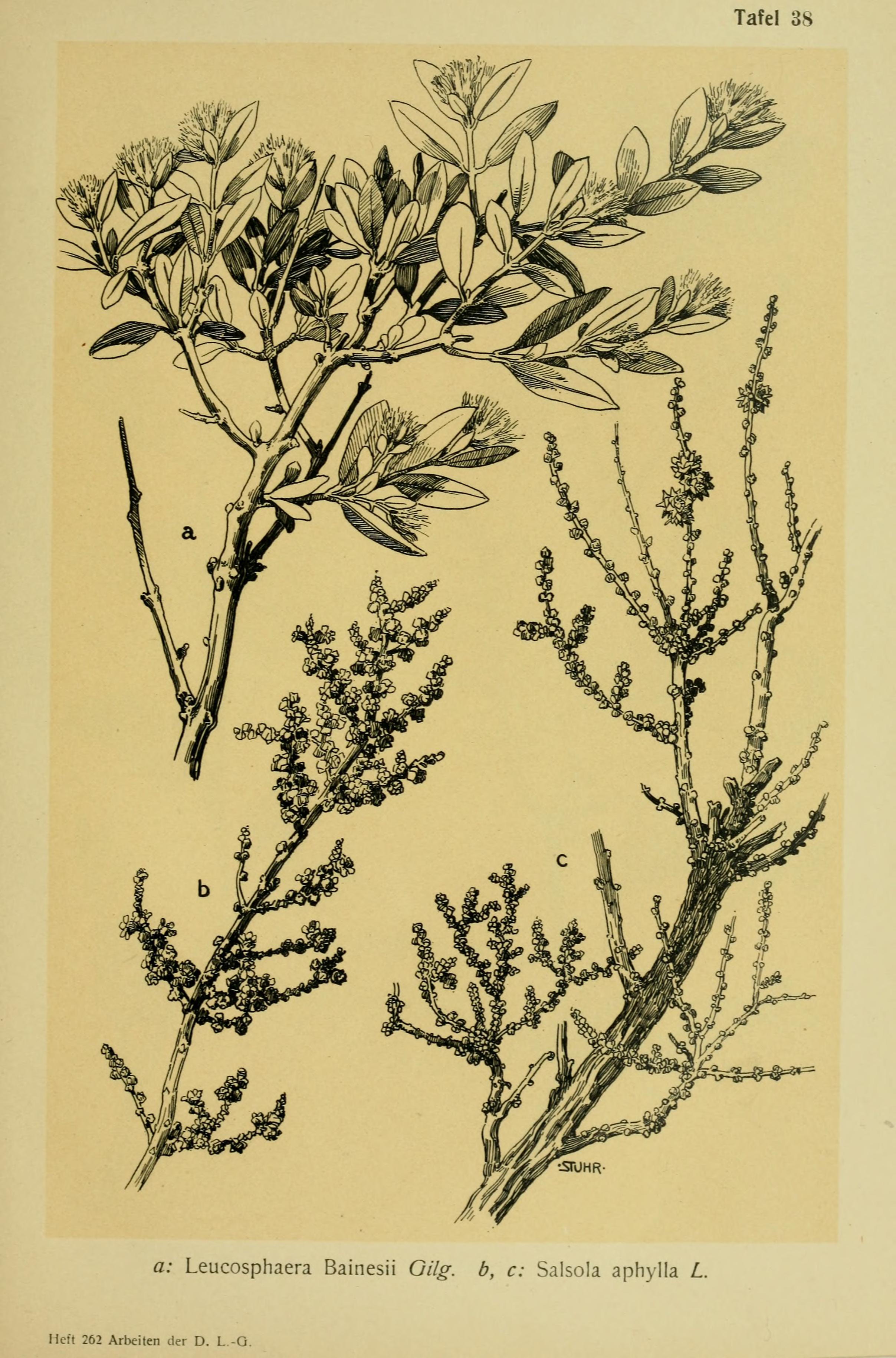 Title: Die Futterpflanzen Deutsch-Südwestafrikas und Analysen von Bodenproben : botanische und chemische Untersuchungen Year: 1914 (1910s) Authors: Heering, W. (Wilhelm), 1876-1916; Grimme, C. (Clemens) Subjects: Forage plants; Soils Publisher: Berlin : Deutsche Landwirtschafts-Gesellschaft Text Appearing Before Image: Tafel 38 Text Appearing After Image: a: Leucosphaera Bainesii Gilg. b, c: Salsola aphylla L Heft 262 Arbeiten der D. L -G.